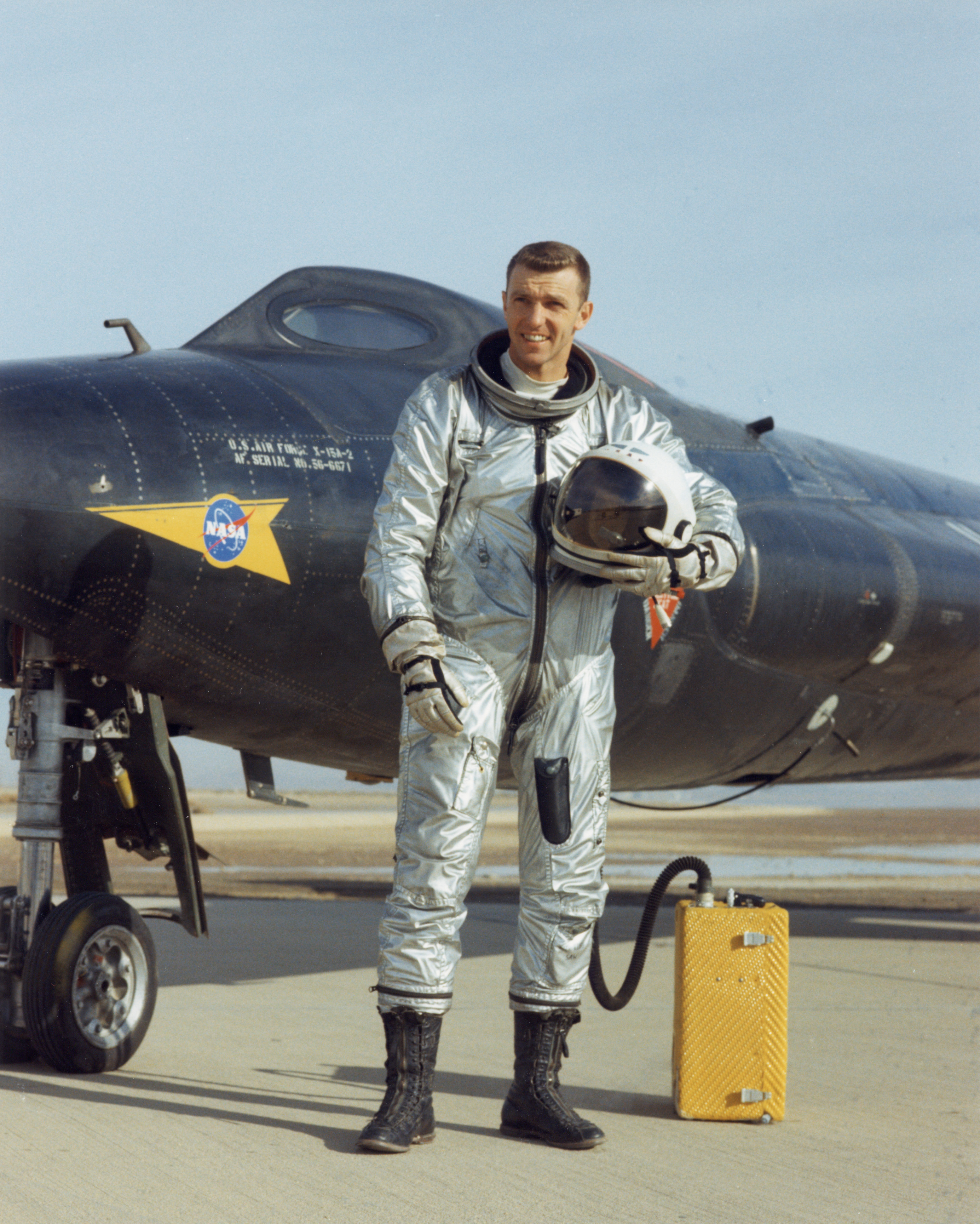 NASA astronaut and X-15 pilot Joe Engle with the North American X-15A-2 aircraft during the X-15 program, which ran from 1959 through 1968. Engle flew the X-15 for the U.S. Air Force 16 times from 1963 to 1965. NASA photo in public domain.